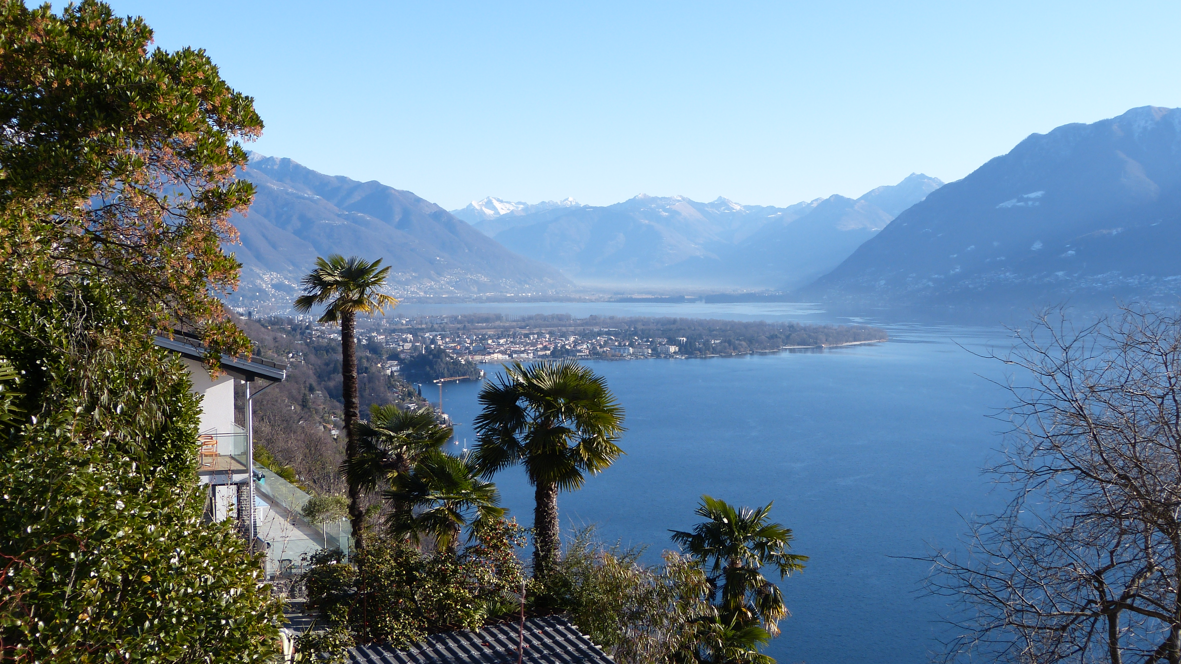 Lago Maggiore, looking northwards to Ascona